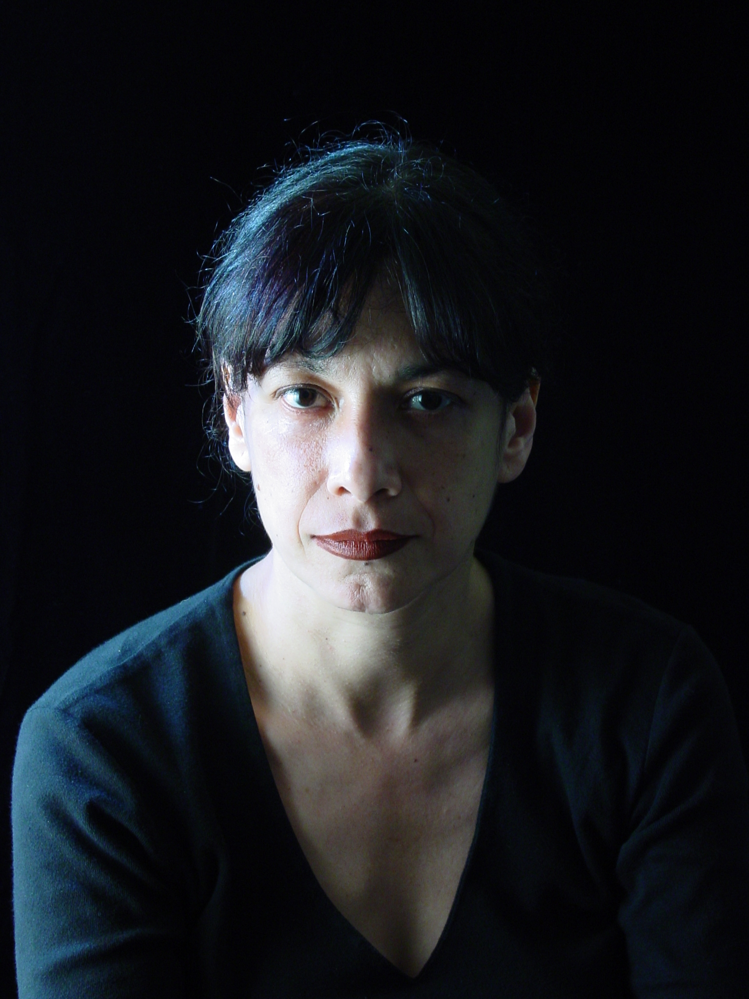 Malú Huacuja del Toro, novelist, playwright and screenwriter